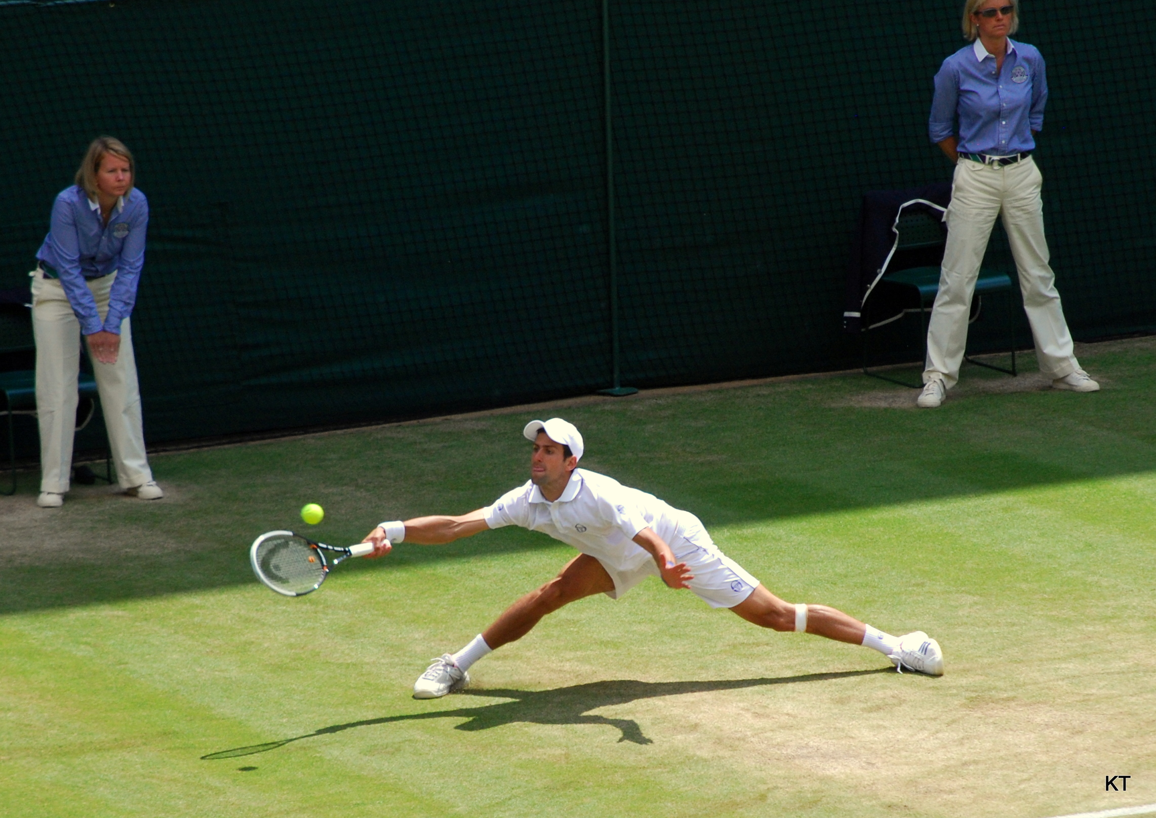 Novak Djokovic on the stretch during his semi-final with Jo-Wilfried Tsonga. Djokovic won this 7-6, 6-2, 6-7, 6-3, on his way to his first Wimbledon title. Day 11 of Wimbledon 2011.